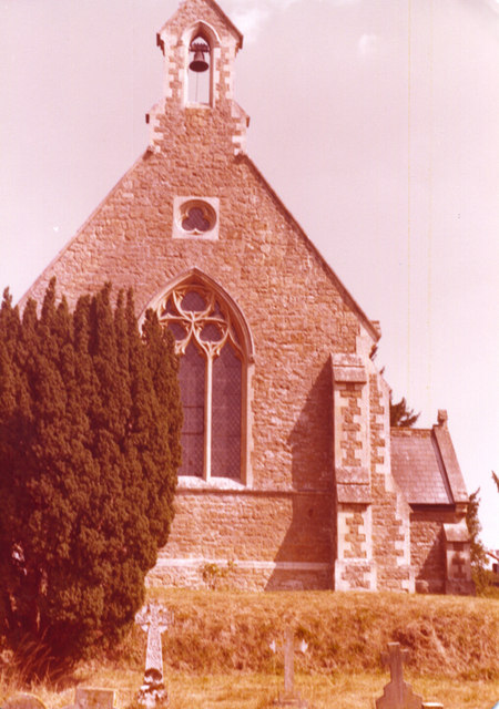 Former parish church of St Mary, Chittoe, Wiltshire, seen from the west. Now a private house.